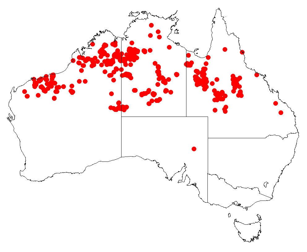 Acacia acradenia Occurrence data from Australasia Virtual Herbarium downloaded from on 8 December 2018